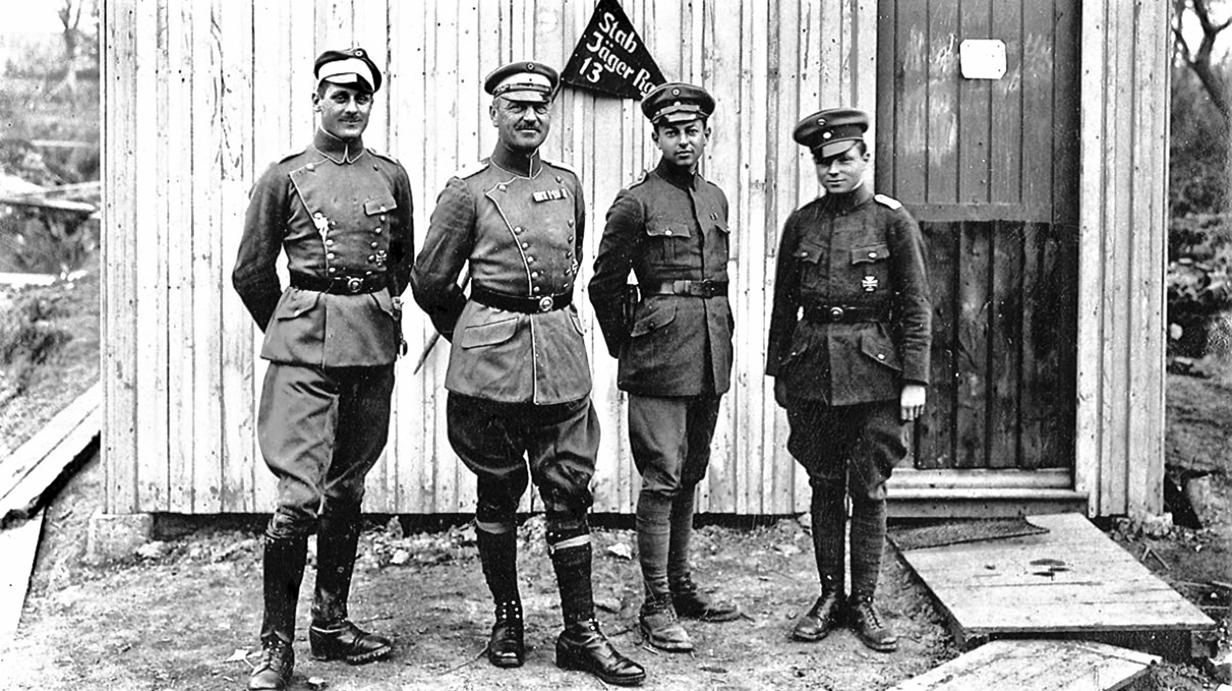 Otto Braun (1897–1918), 3rd from the left, as 21 years old Lieutenant and Batman with comrades near Somme river in Northern France. His Commander is the 2nd from the left.